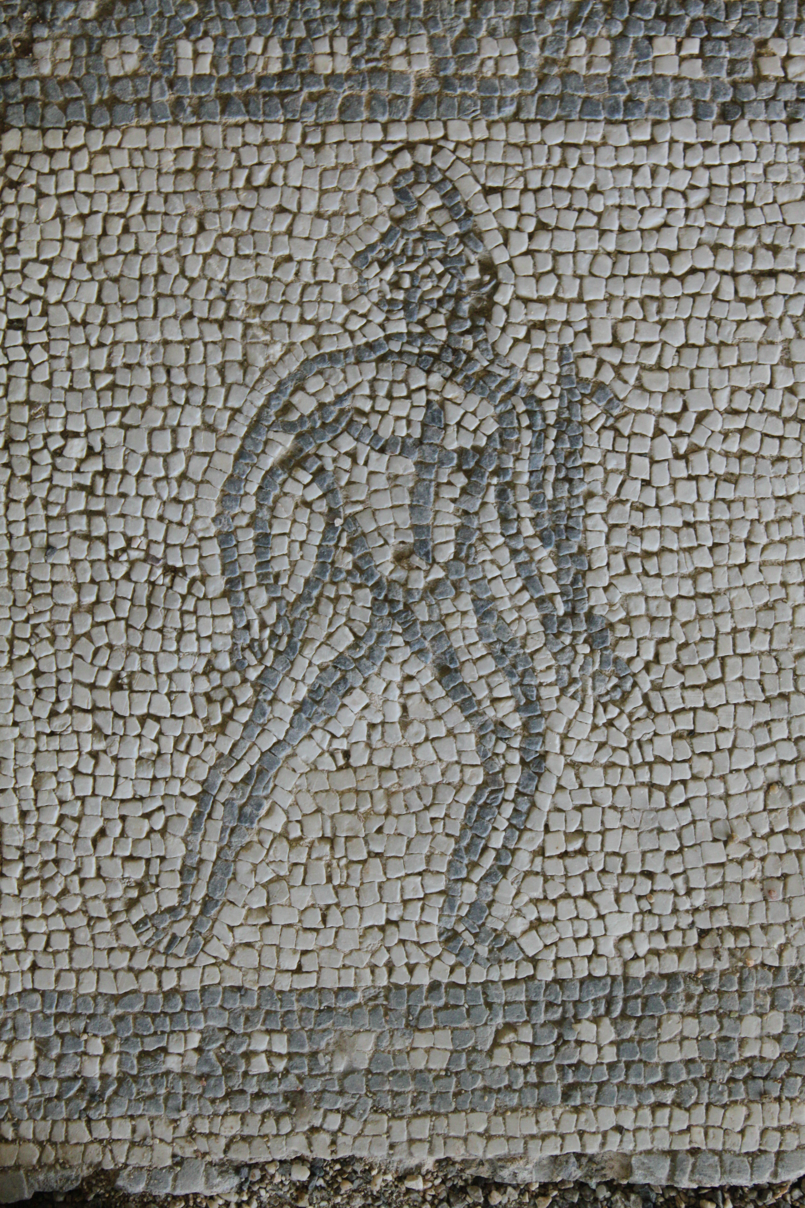 Floor Mosaic in the Villa Armira, in the Rhodope Mountains, Bulgaria